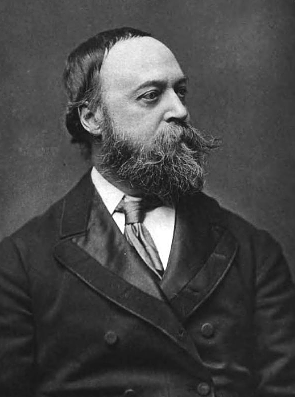 photo of Irish/British playwright and artist William Gorman Wills (1828-91)